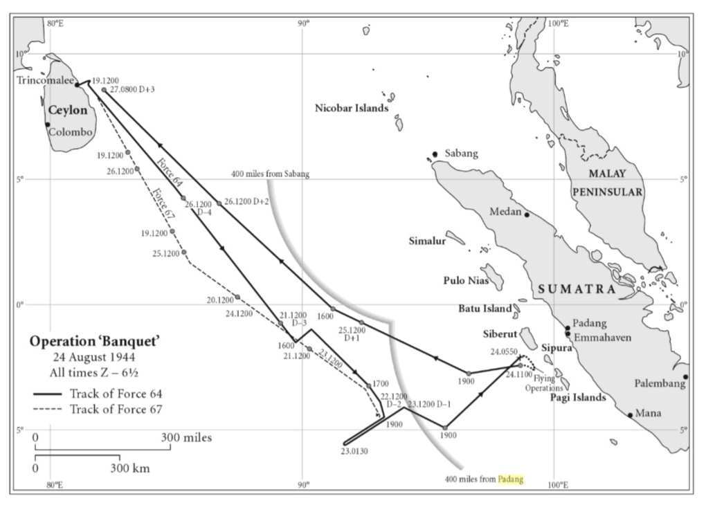 Track of Task Force 64 during Operation Banquet